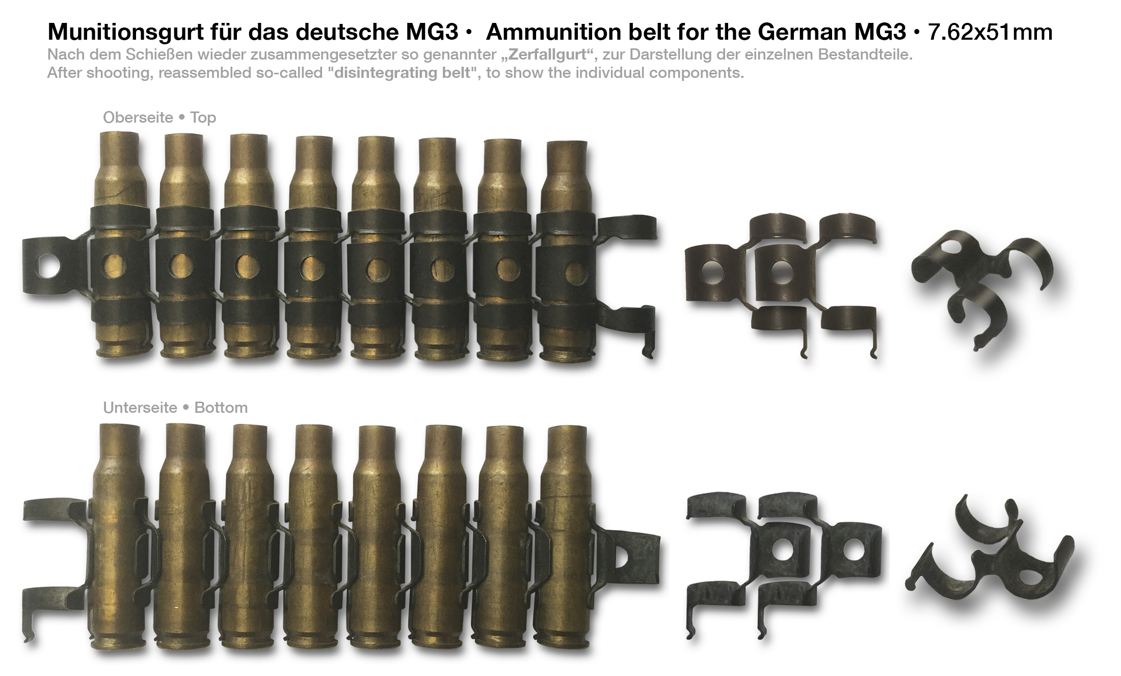 After shooting, reassembled so-called M13 (designated DM60 by Germany) "disintegrating belt", to show the individual components.